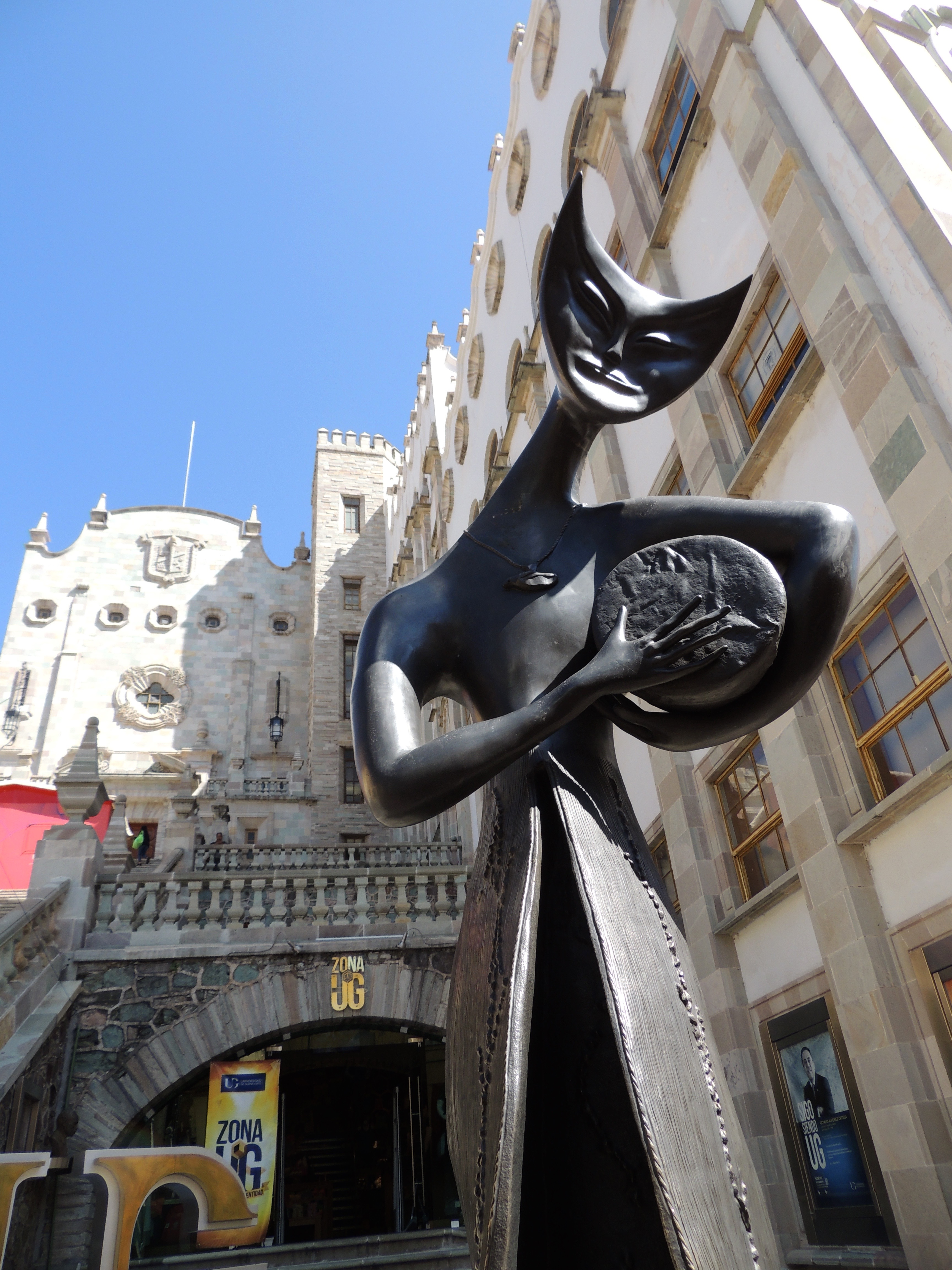 A sculpture of Leonora Carrington could be appreciated on the stairs Guanajuato University during the 2015 edition of the Cervantino Festival in Guanajuato, Guanajuato, Mexico.